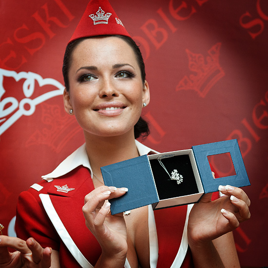 Dasha Astafieva